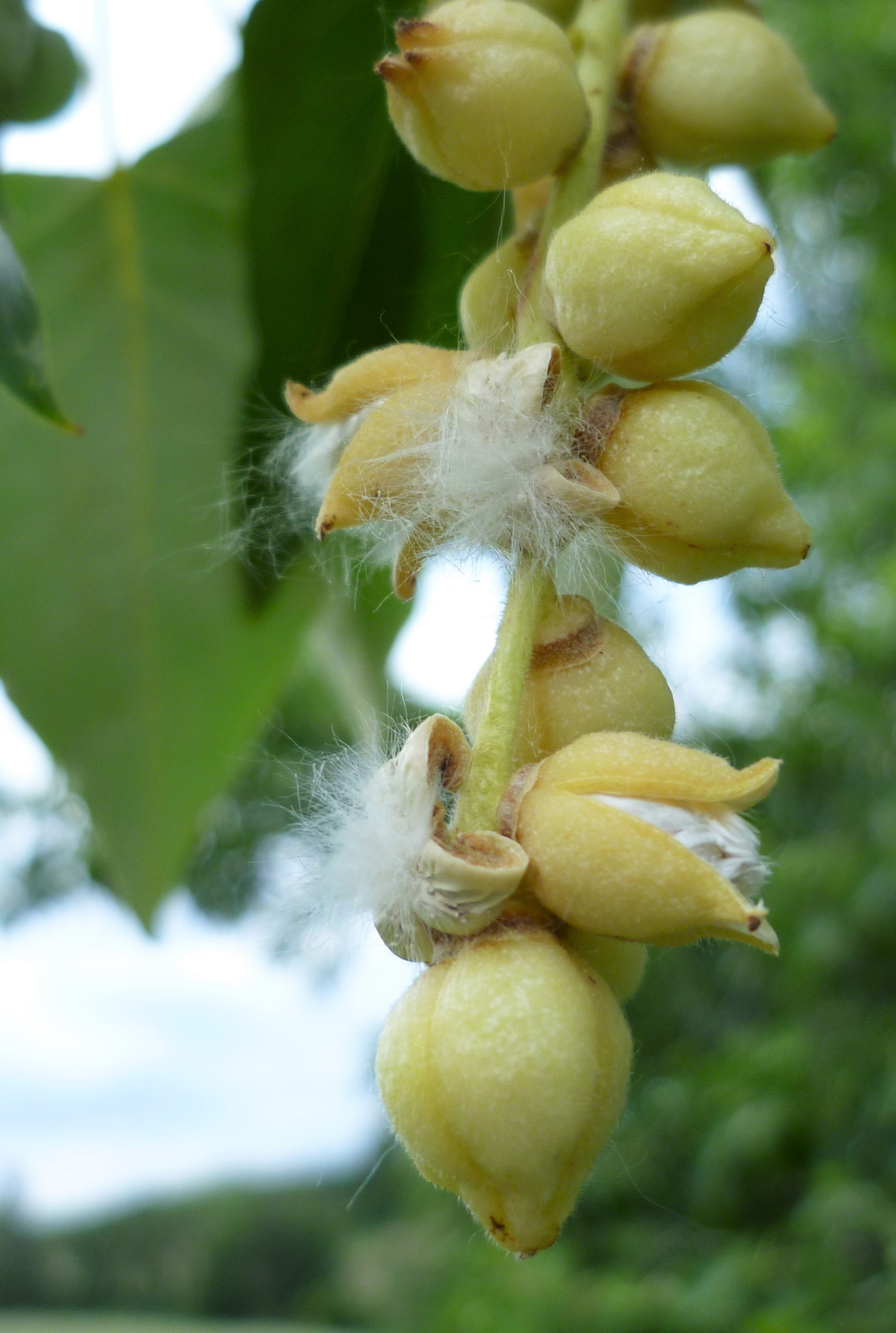 Populus trichocarpa mature female catkins bursting open next to the Wenatchee River in Dryden, Chelan County Washington